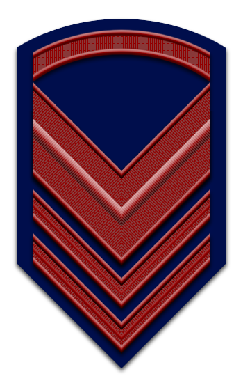 insignia for the sleeves of the rank of first chief airman of the Italian Air Force